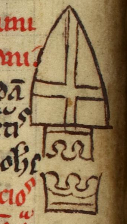 Inverted arms of Jerusalem indicating the death of Henry I, king of Jerusalem